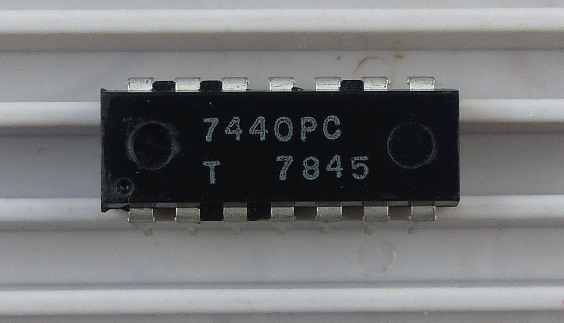 Integrated circuit 7440 - dual 4-input NAND buffer - manufactured by Tungsram, Hungary